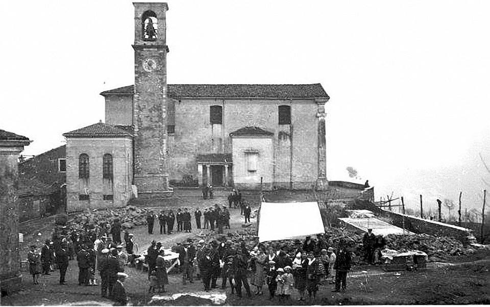 Muzzolon_Chiesa Vecchia